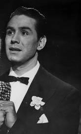 Lalo Maura- actor